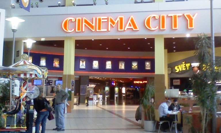 Cinema City in Prague - Zlicin, The Czech Republic